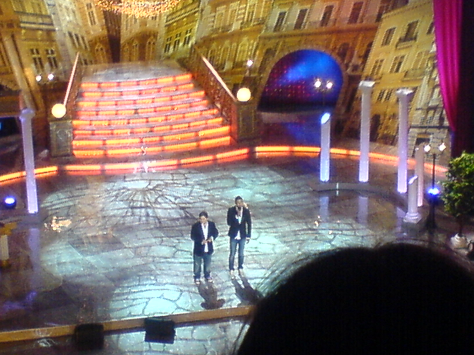 Leading festival «Big difference» — Ivan Urgant and Alexander Tsekalo